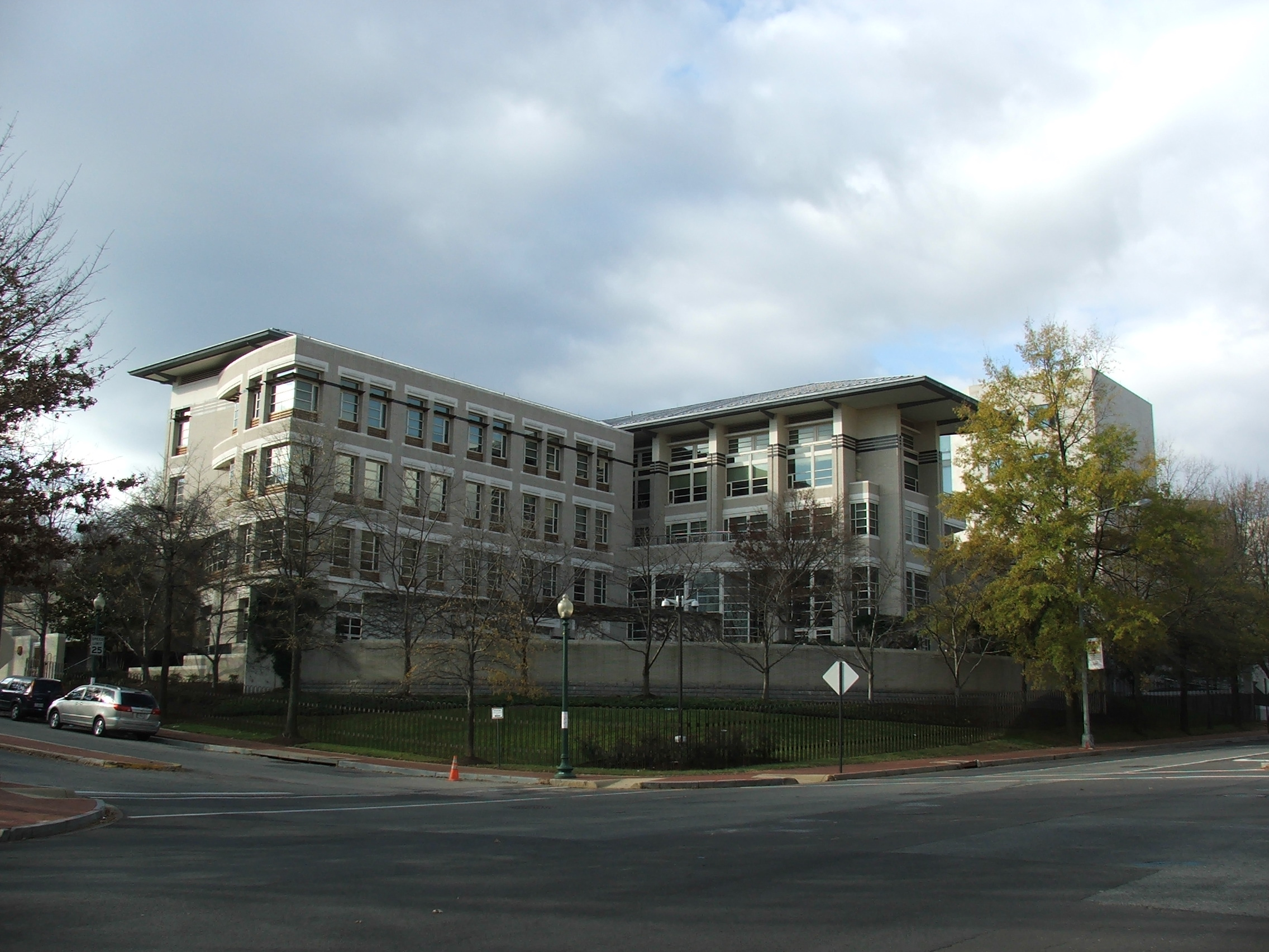 Embassy of the Republic of Singapore in the United States, located at 3501 International Place NW in Washington, D.C.